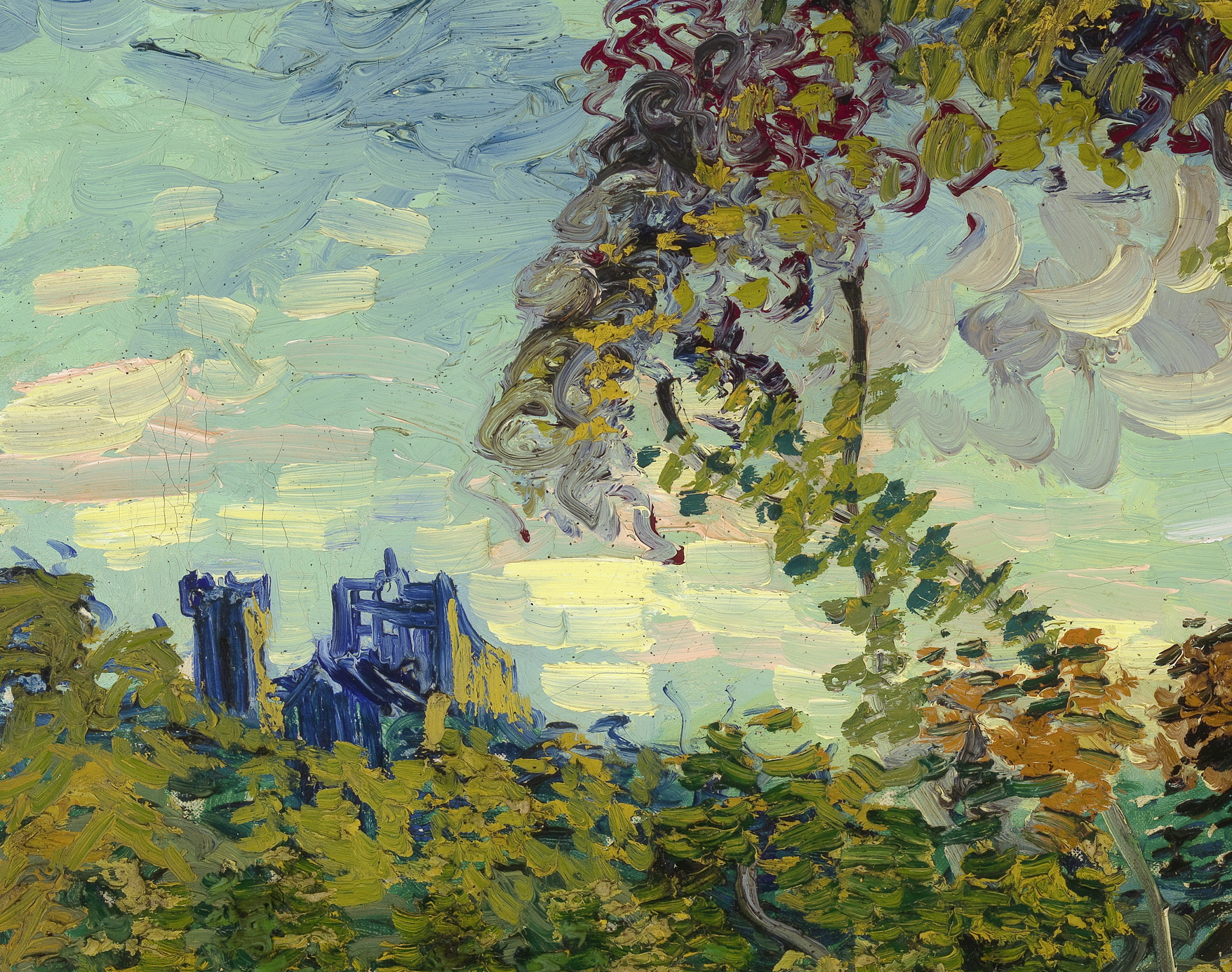 Detail of Vincent Van Gogh's 1888 painting "Sunset at Montmajour" Cropped from the Commons file File:Sunset at Montmajour 1888 Van Gogh.jpg